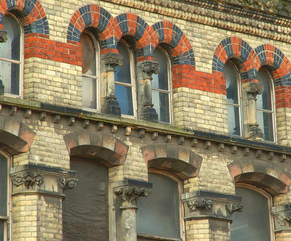 Former Riddel's warehouse, Belfast (detail) A former metal merchant's warehouse - built in 1867 to a design by Thomas Jackson and Son.